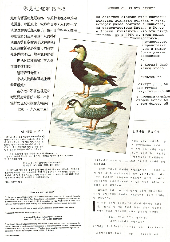 Leaflets of Tadorna cristata search in 1982 by E. Nowak